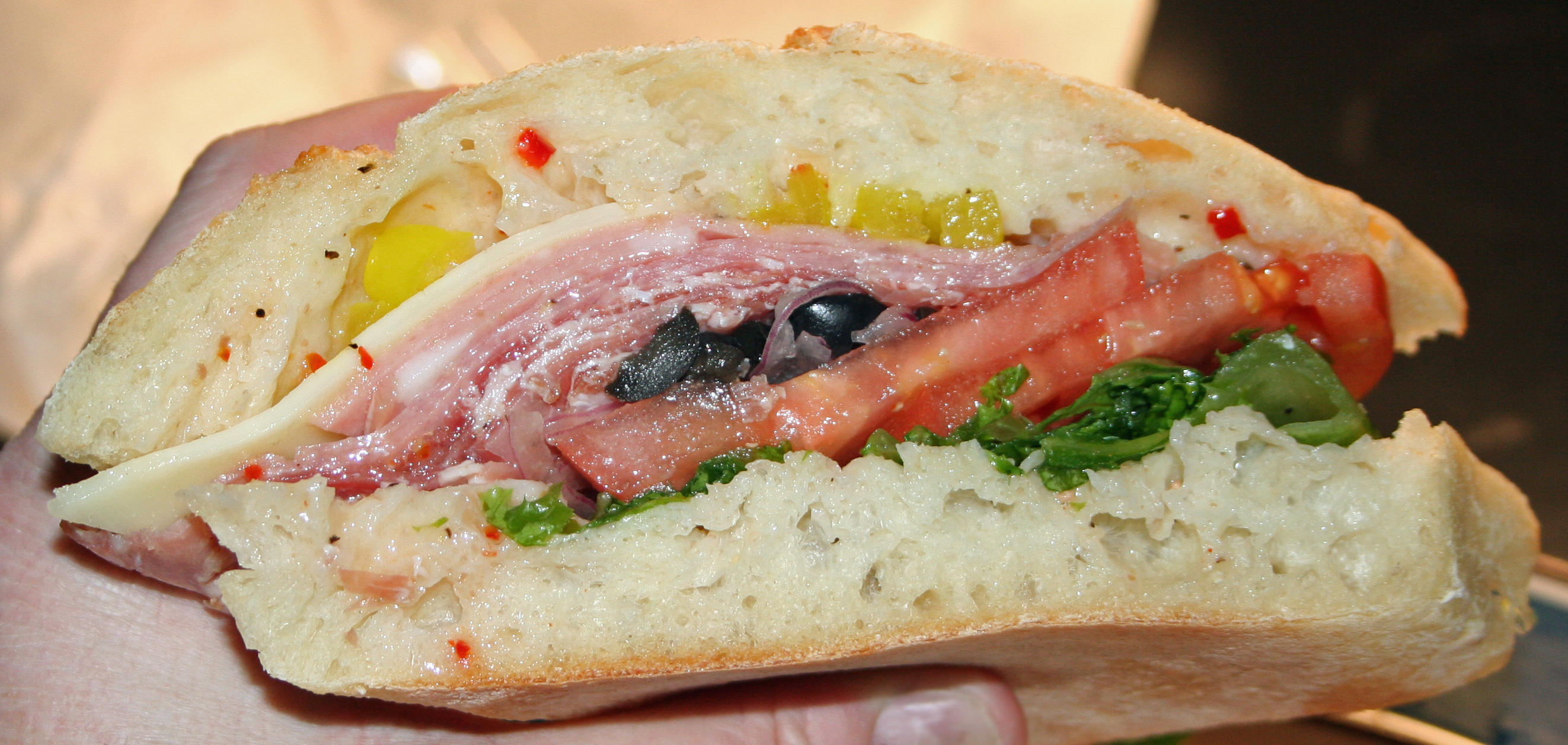 Man, it was really good.